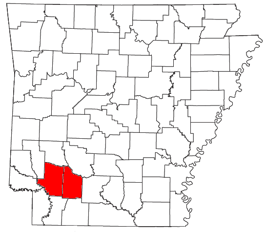 Locator map of the Hope Micropolitan Statistical Area in the southwestern part of the U.S. state of Arkansas.